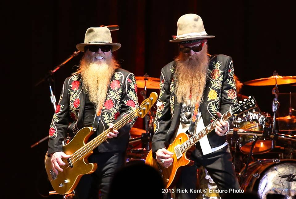 Photo of ZZ Top at Alamodome in San Antonio, Texas 12/7/13 at a private function not open to public